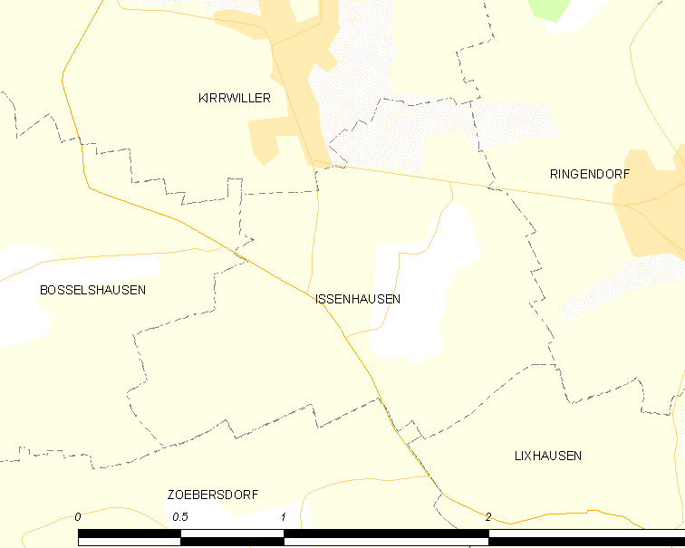 Map of French municipality